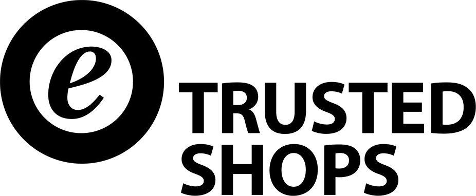 Corporate logo of Trusted Shops